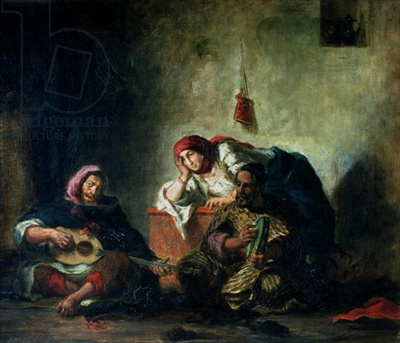 Jewish Musicians of Mogador (1847) - by Eugène Delacroix